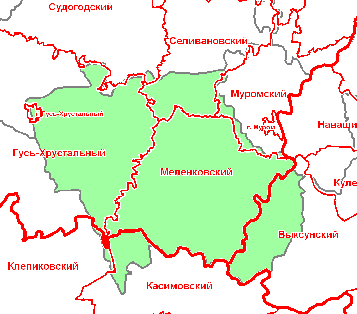 Maps of Vladimir Governorate